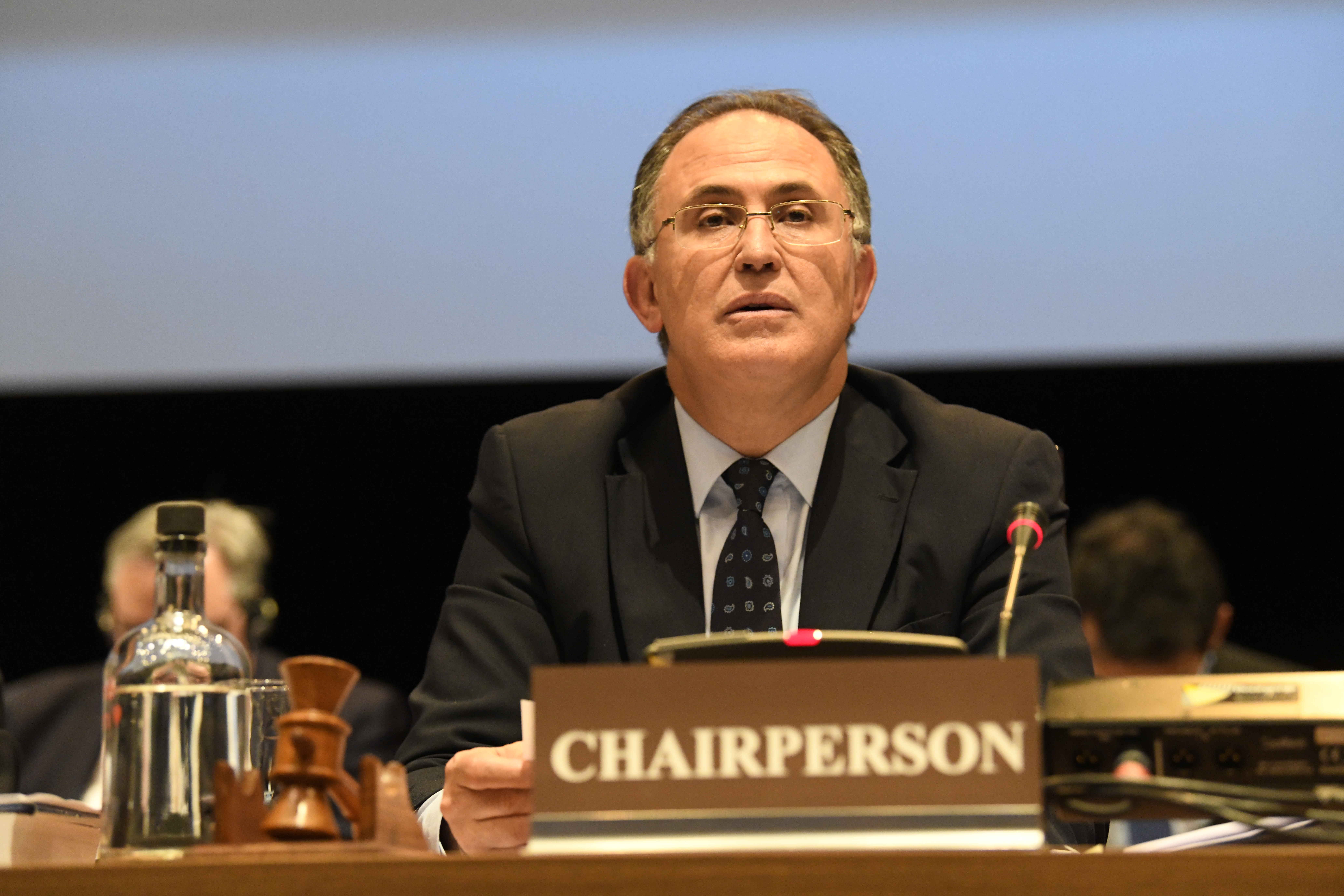 The Chairperson H.E. Ambassador Abdelouahab, Permanent Representative of the Kingdom of Morocco to the OPCW, at the podium during the Fourth Special Session of the Conference of States Parties to the Chemical Weapons Convention. The Fourth Special Session Conference was held at the World Forum, The Hague, 26–28 June 2018.